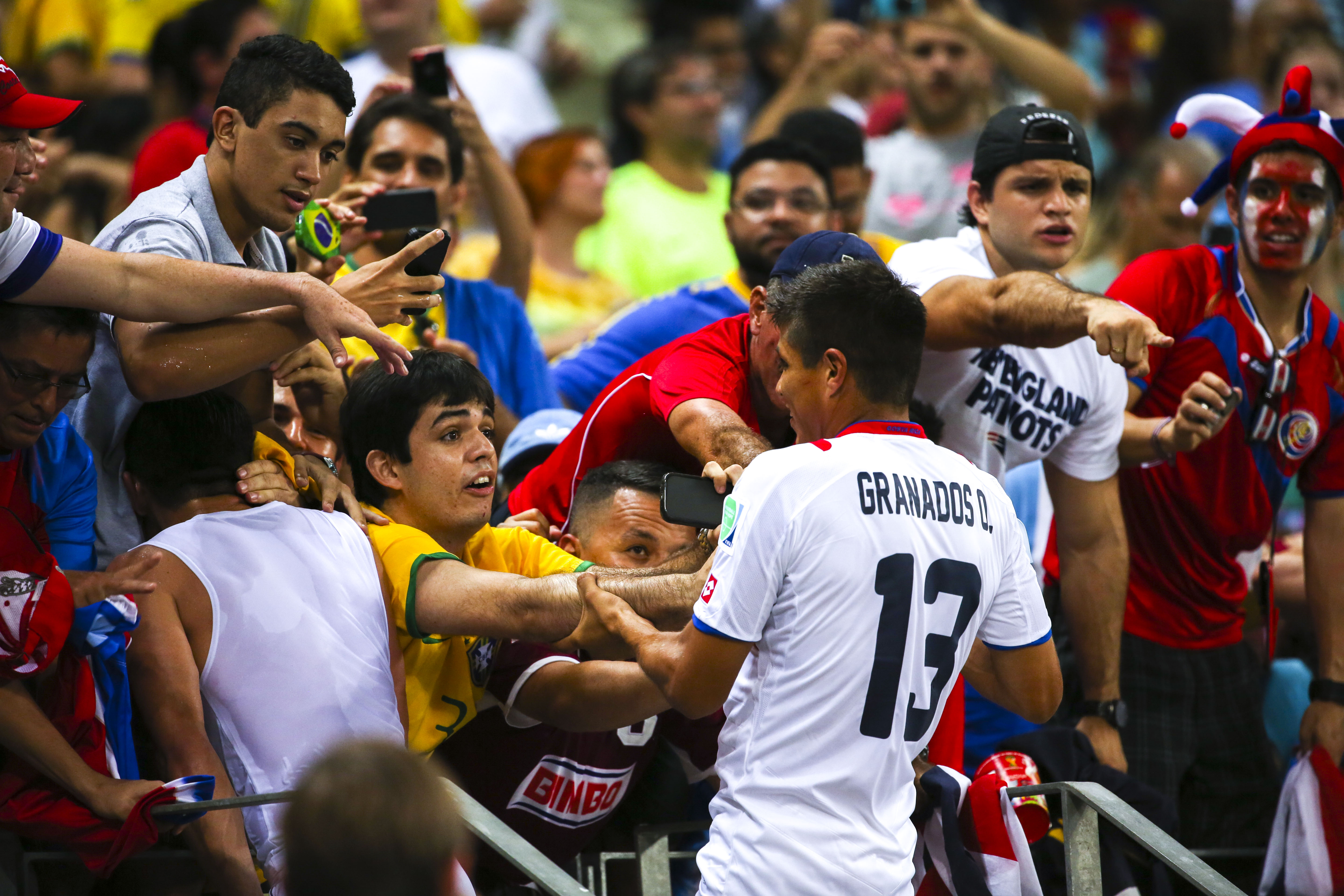 Uruguay and Costa Rica match at the FIFA World Cup 2014-06-14